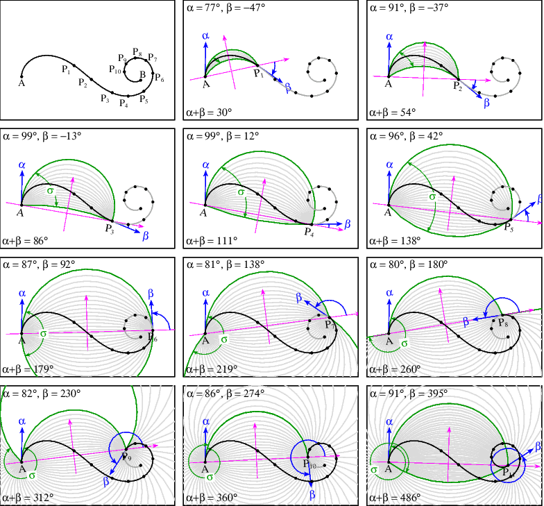 Monotonicity of Vogt's angle on a spiral cuve